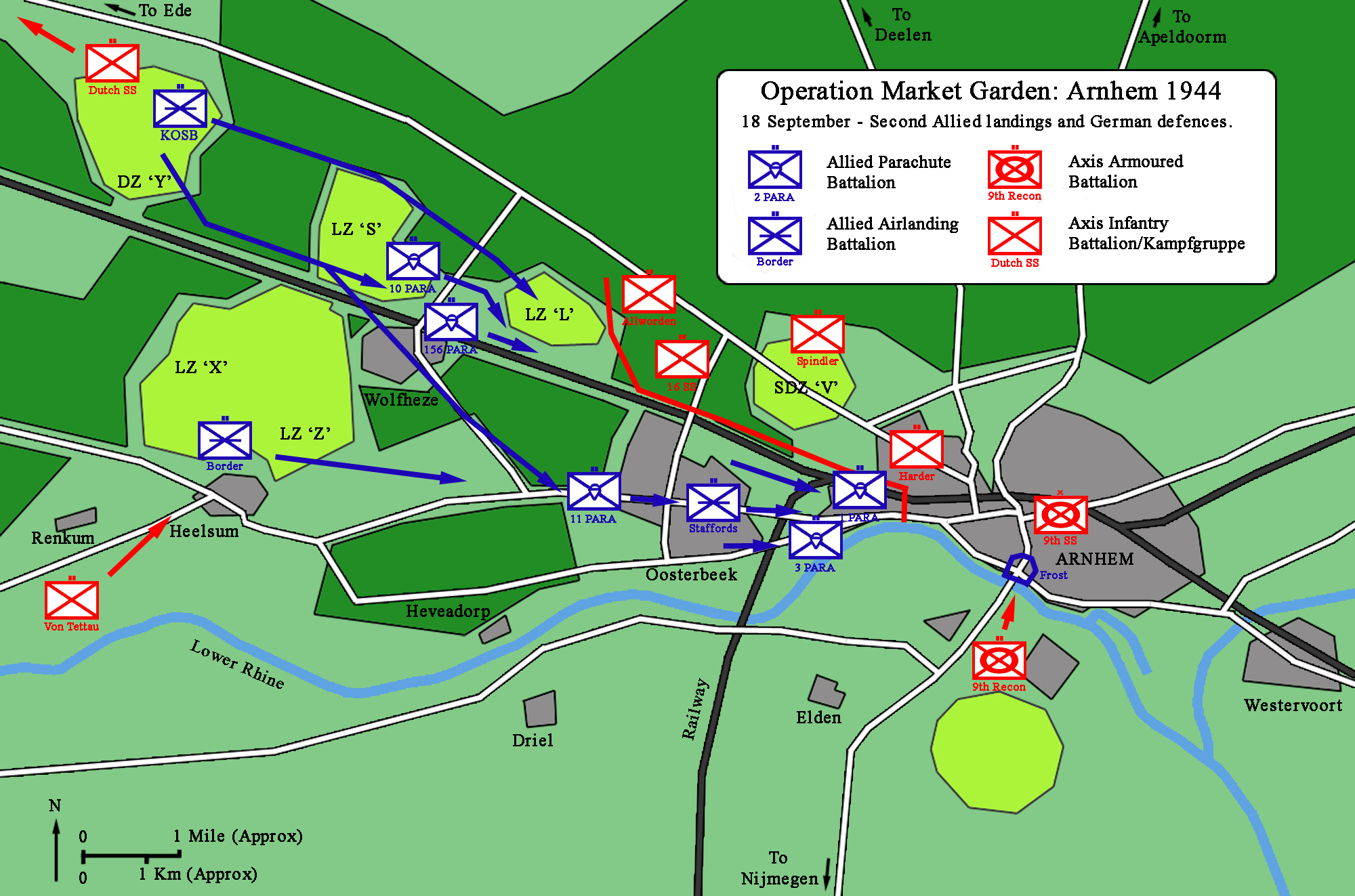 Arnhem Day 2, 18 September 1944. Allied advance toward Arnhem and German blocking positions.